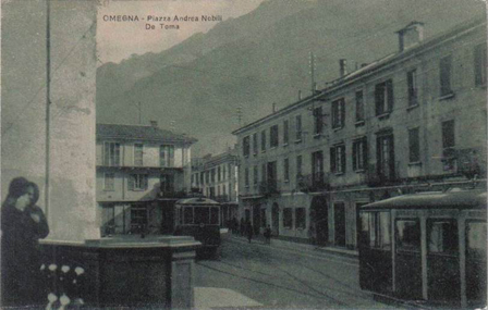 Omegna, piazza Nobili De Toma.jpg